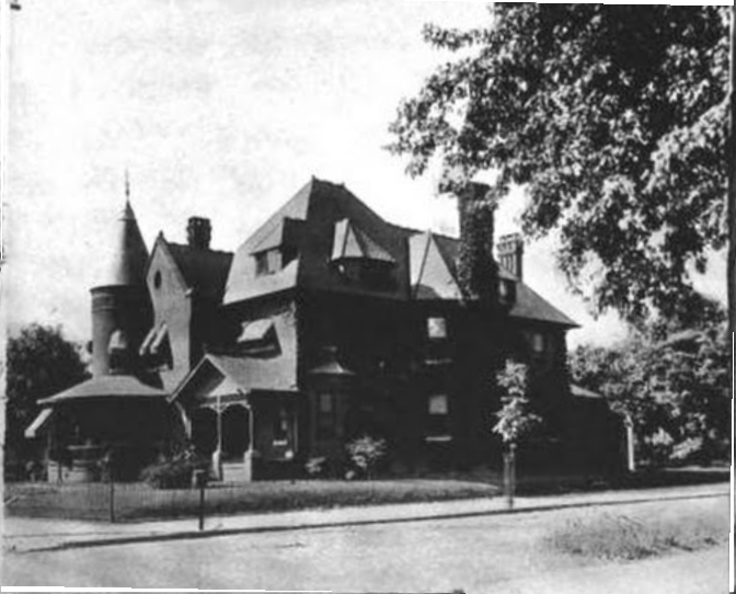 Photo of Sproul homestead from H.V. Smith Chester and Vicinity - published 1914